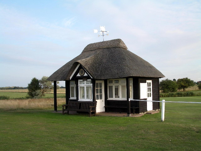 Starters hut at 1st hole on Royal St Georges Golf Club.